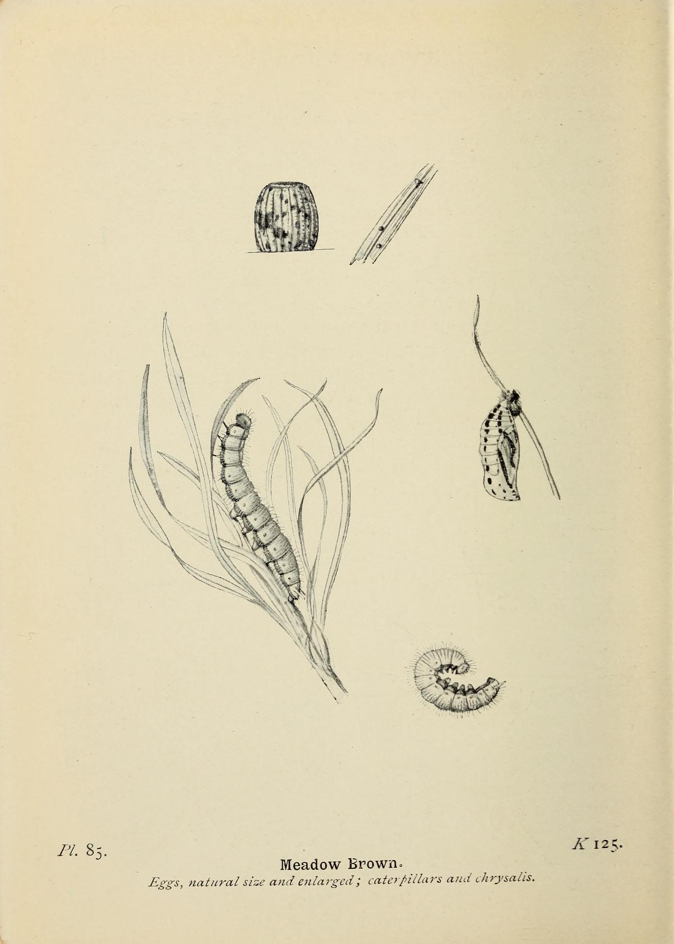 South1906Plate85